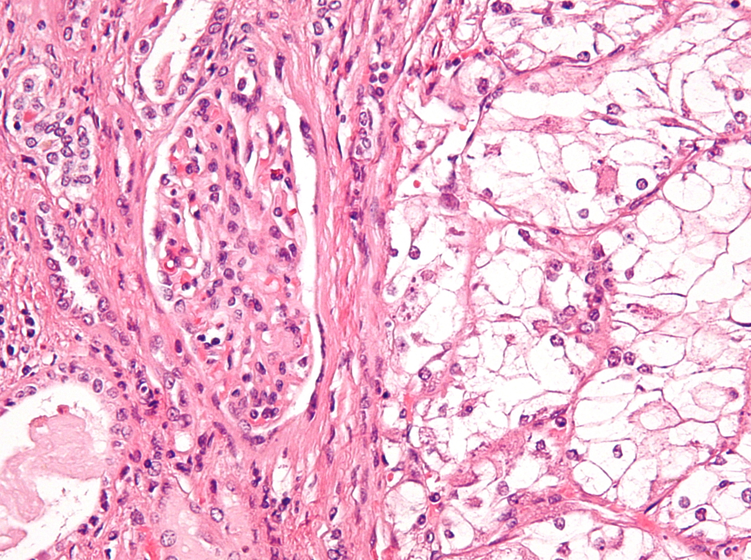 High magnification micrograph of a clear cell renal cell carcinoma. H&E stain. Features: Cells with clear cytoplasm, typically arranged in nests. Nuclear atypia is common. The case seen in the image has Fuhrman grade 2/4; the nuclear atypia is moderate and nucleoli could not be seen at 100 X. Related images High mag. (cropped) High mag. Intermed. mag.